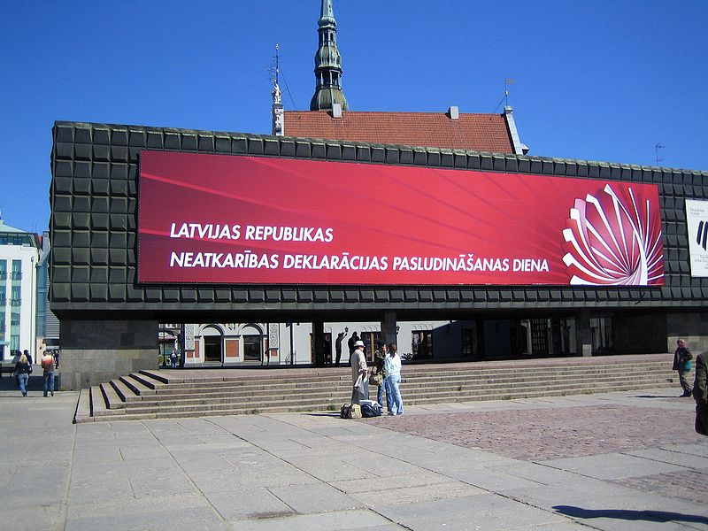 The museum of the Occupation of Latvia, Riga